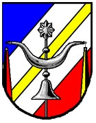 Internal coat of arms of the Bundeswehr (Armed Forces of the Federal Republic of Germany). → Remarks on naming and categorization scheme Verbandsabzeichen Heeresmusikkorps 14